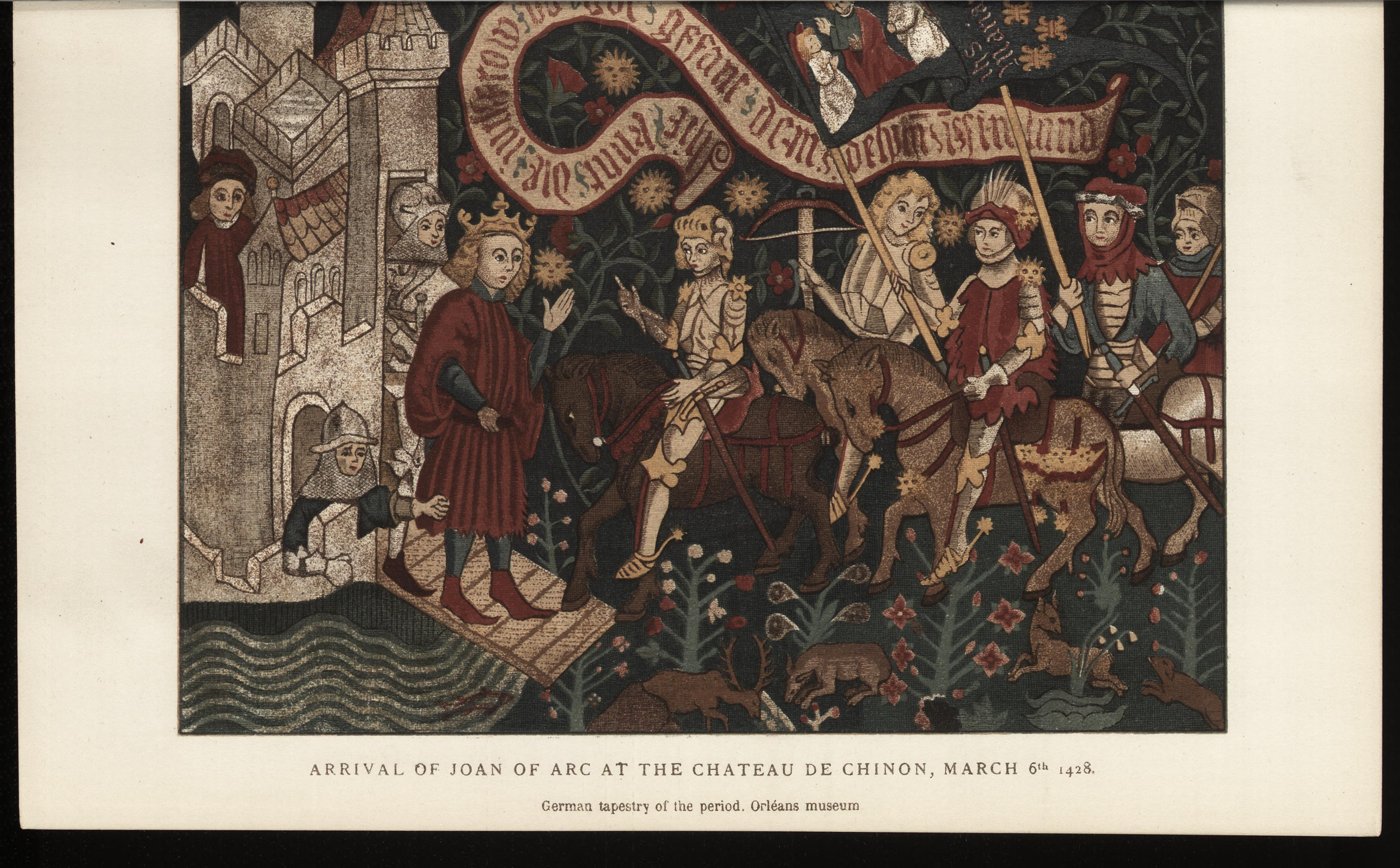 Title: Military and religious life in the Middle Ages and at the period of the Renaissance Year: 1870 (1870s) Authors: Jacob, P. L., 1806-1884 Subjects: Middle Ages Civilization, Medieval Civilization, Renaissance Costume Military art and science Christian life Publisher: London : Bickers & Son Text Appearing Before Image: ' Text Appearing After Image: '